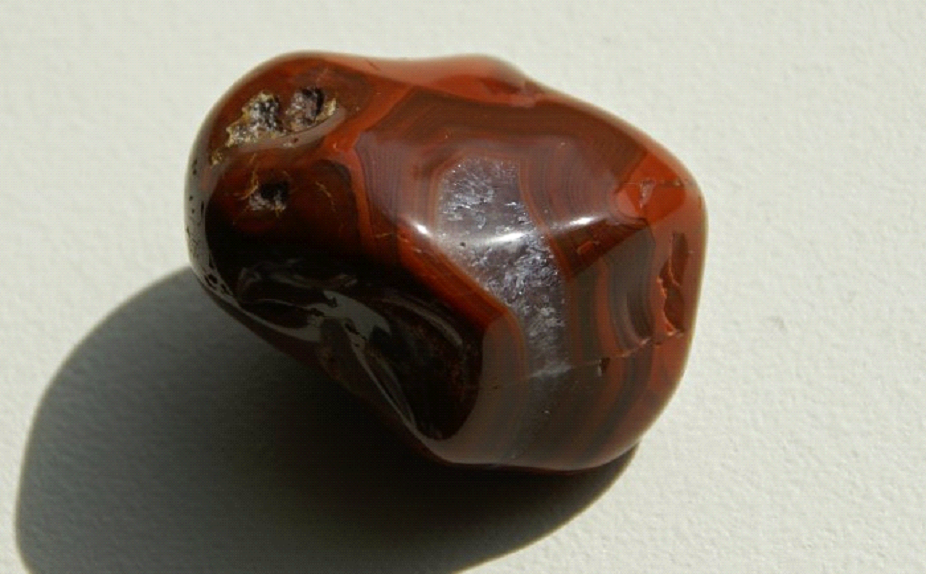 Found on Lake Superior in Duluth, Minnesota by Erin Brady. Rock polishing and picture taken by Diana Stein.